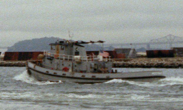 USS Accomac (YTB-812) (right) after assisting USS San Jose (AFS-7) from the pier at NAS Almeda, California.